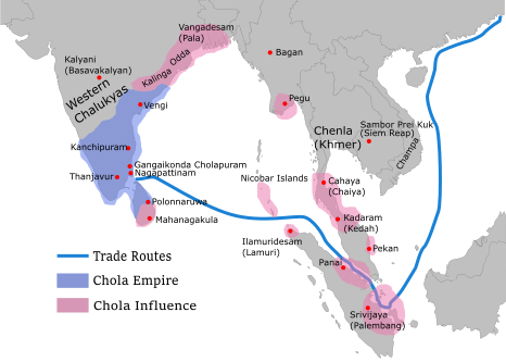 Map showing the extent of the Chola empire during 10 – 11th century shading central vietnam according to CŌḶAS" by k. a. nilakanta sastri